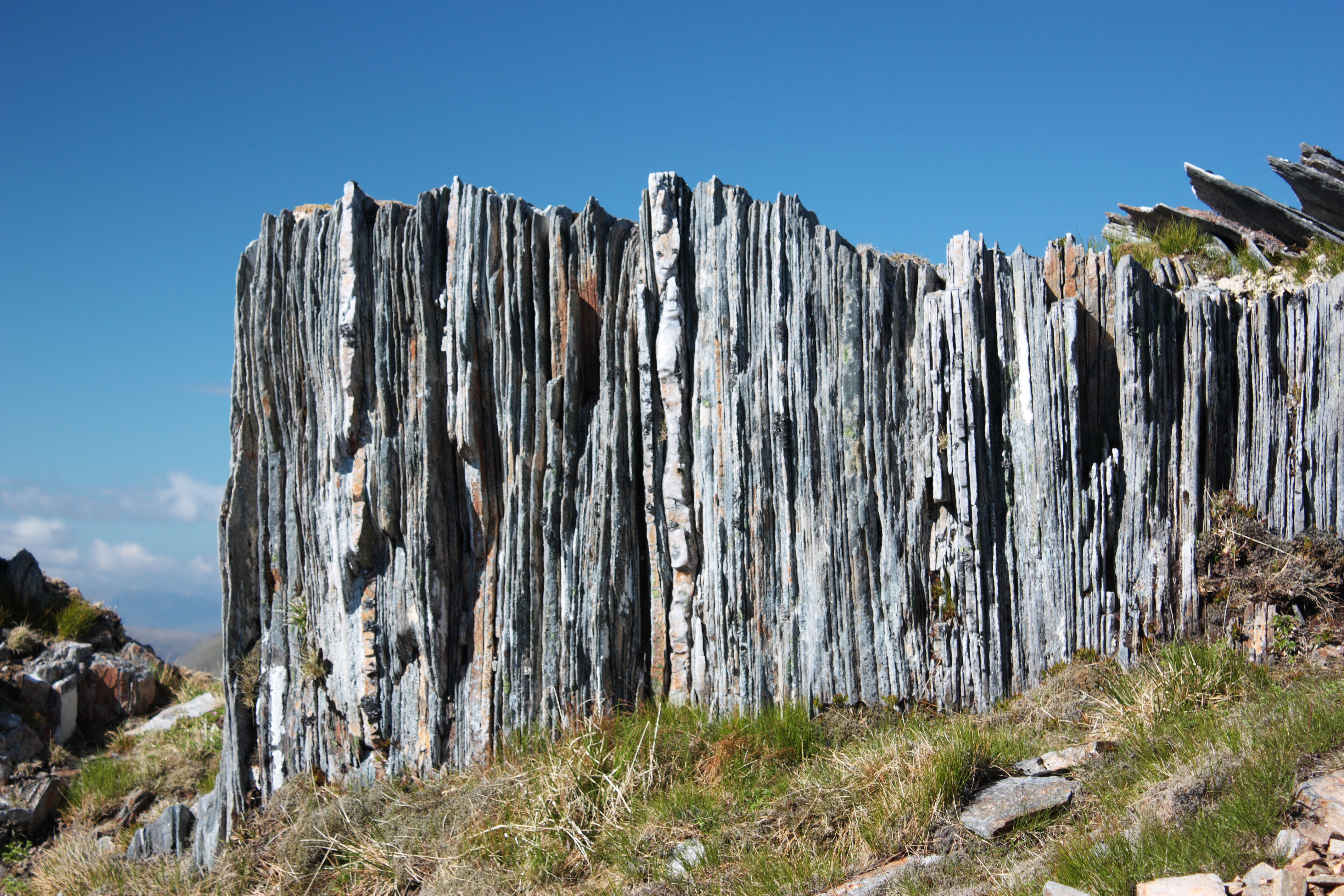 Vertically-tilted metamorphic rocks near Carn Eighe in the Northern Highlands of Scotland. These rocks belong to the Glenfinnan Group (part of the Moine Supergroup), and they are of Neoproterozoic age.